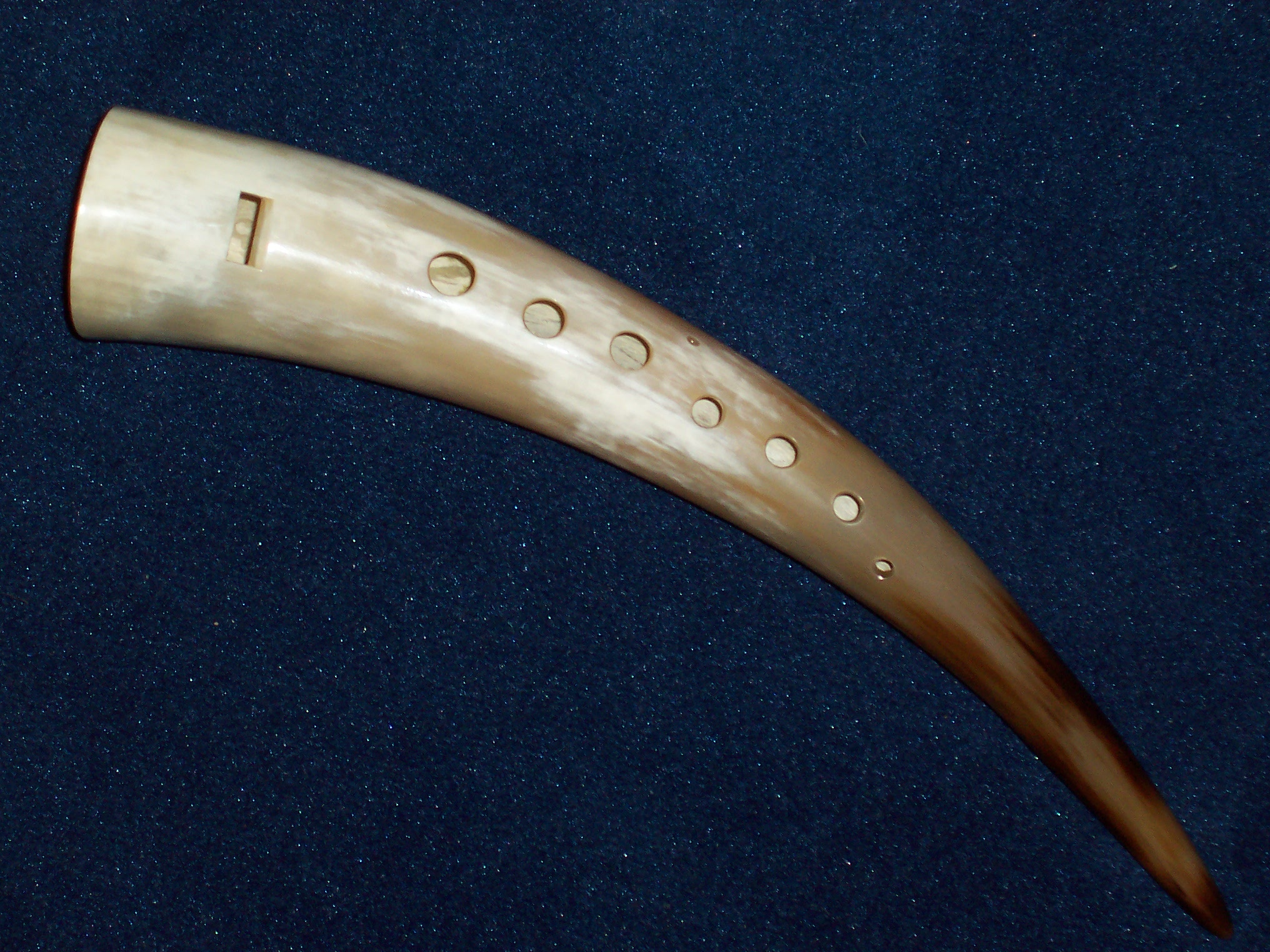 Gemshorn pitch F Gemshorn Tonlage Alt